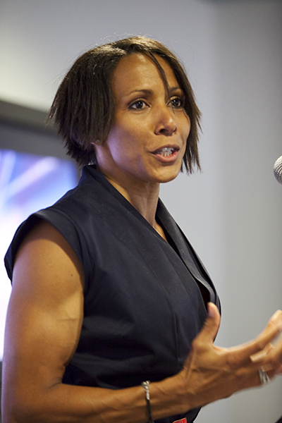 Sport and Technology - the conference 2009 (